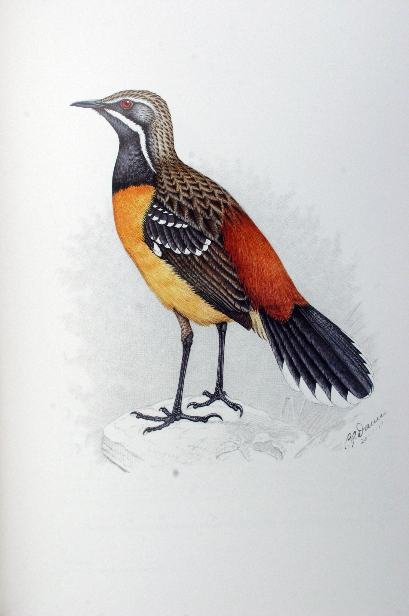 Orangebreasted Rockjumper (Chaetops aurantius) (adult male)